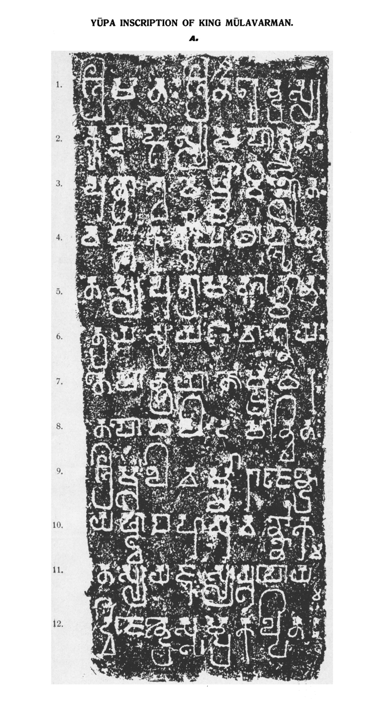 Mulavarman Kundunga inscription